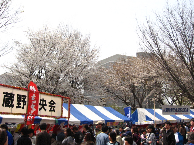 Musashino Sakura Festival 15th. 2007 April 1 on Sunday.